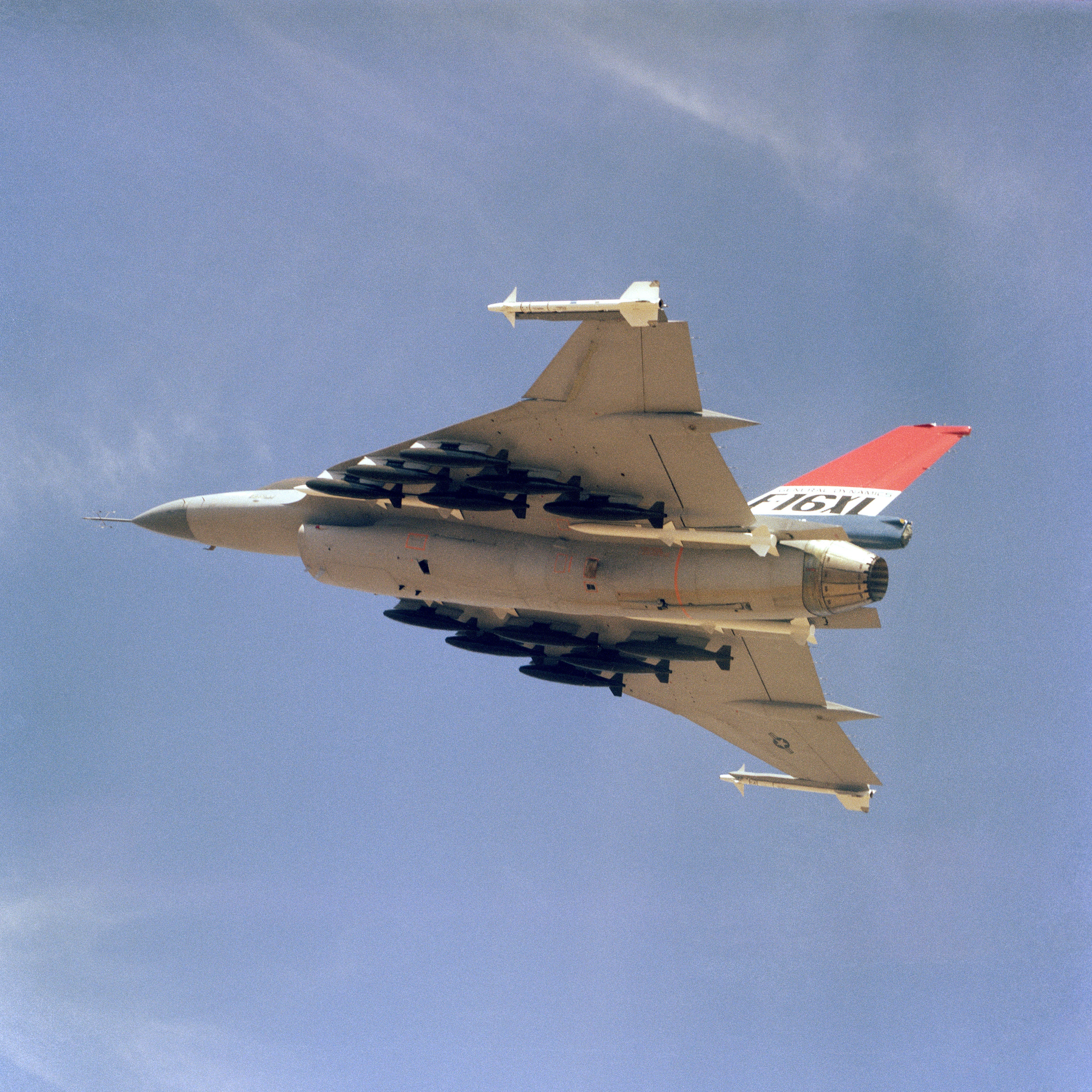 An air to air left underside view of an F-16XL aircraft. The aircraft is armed with two wing tip mounted AIM-9 Sidewinder and four fuselage mounted AIM-7 Sparrow missiles along with 12 500-pound bombs.